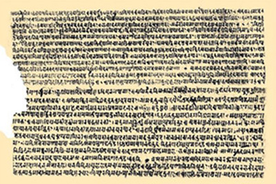 Part of a script written in Abahatta, a stage in the evolution of the Eastern group of Indo-Aryan languages.